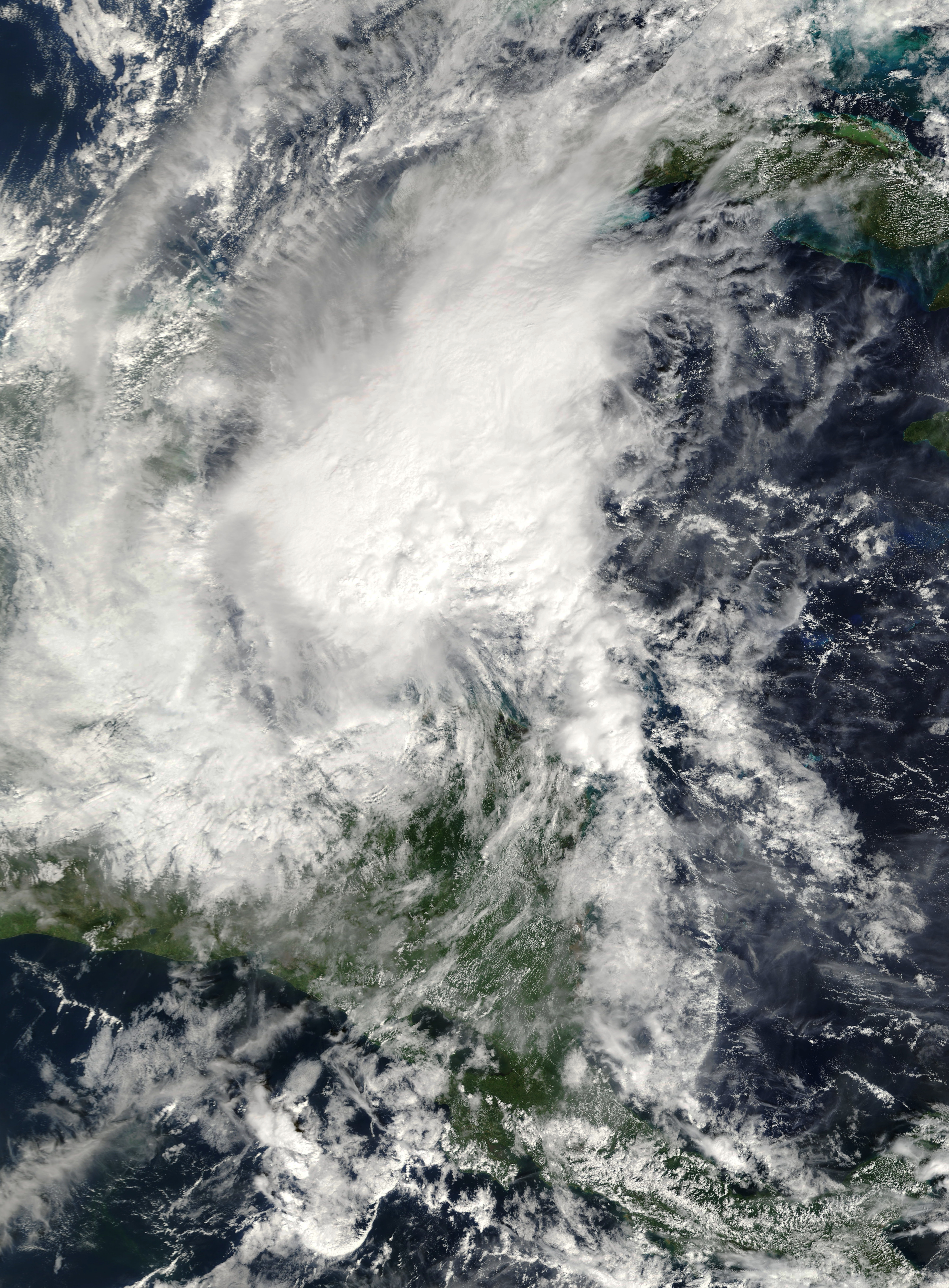 Tropical Storm Gamma (27L) near peak intensity on November 19, 2005.